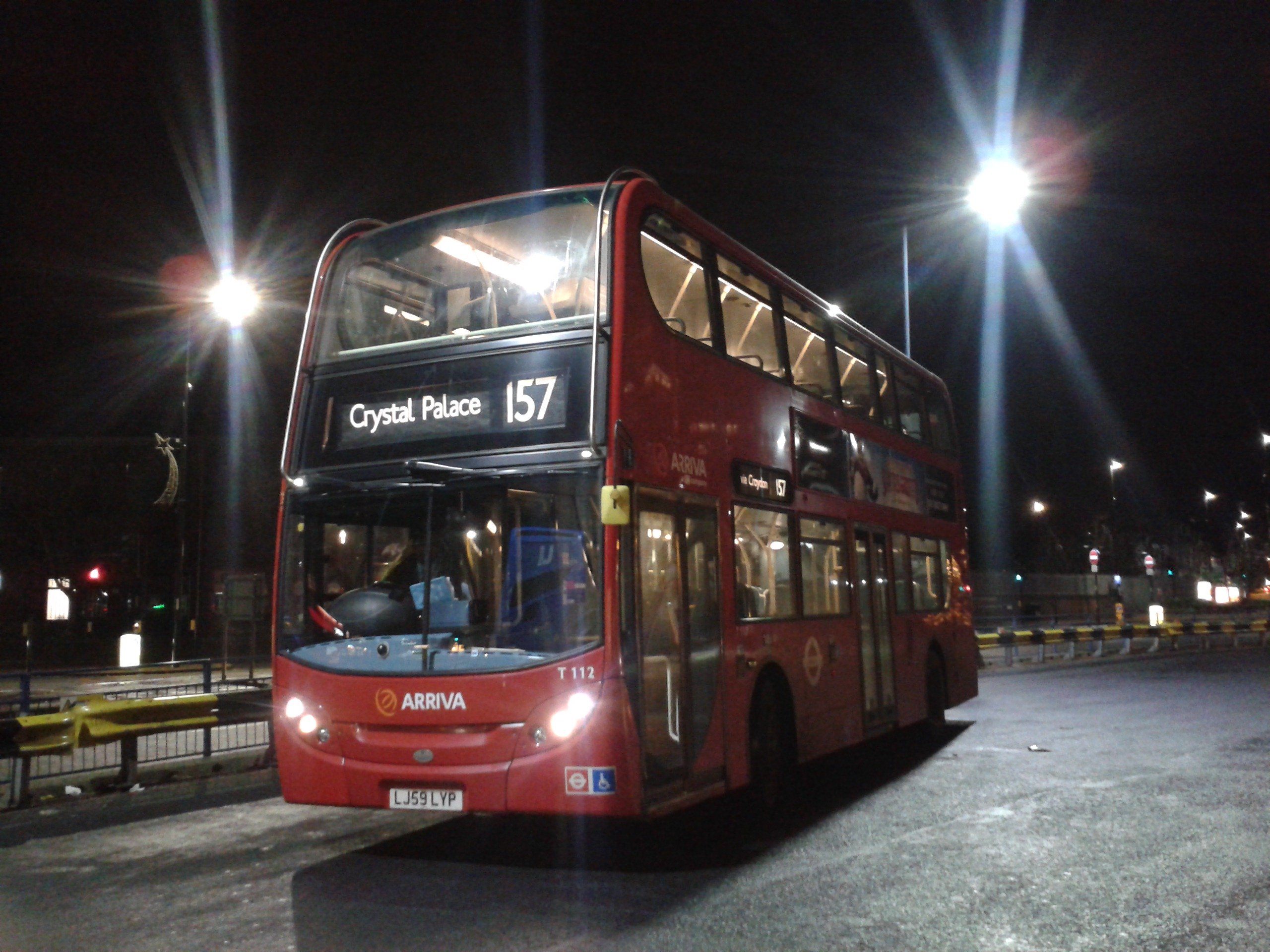 Arriva London T112 on Route 157, Morden